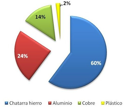 Grafica8